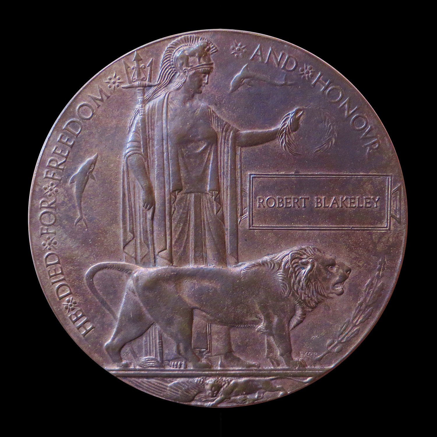 Photograph of a First World War memorial plaque designed by Edward Carter Preston. The soldier commemorated is Robert Blakeley (293393) a Private in the 2nd/10th Battalion, Middlesex Regiment, who died on 19 February, 1918. He is buried in Jerusalem War Cemetery.